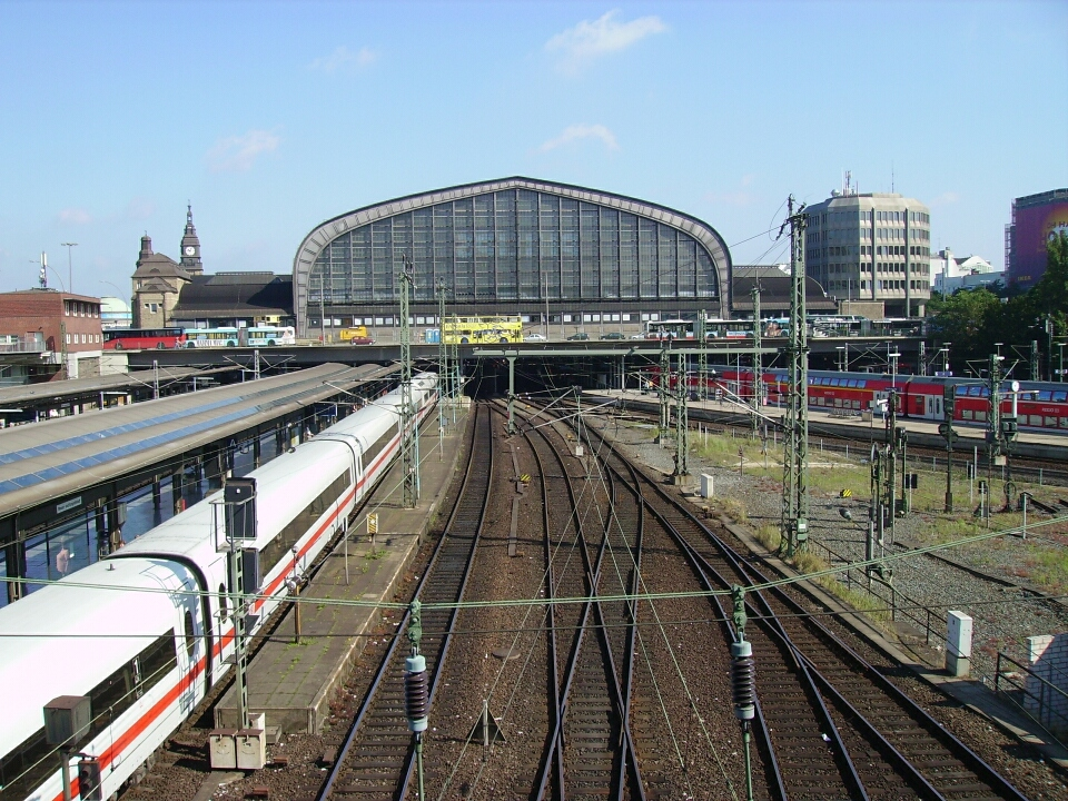 View on Hamburg's central railway station from the South